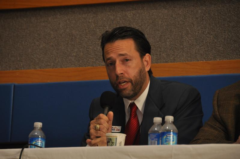 2010 Republican candidate for U.S. Senator for Alaska, Joe Miller. If using this photo please attribute credit to Ryan McFarland and direct a link to .